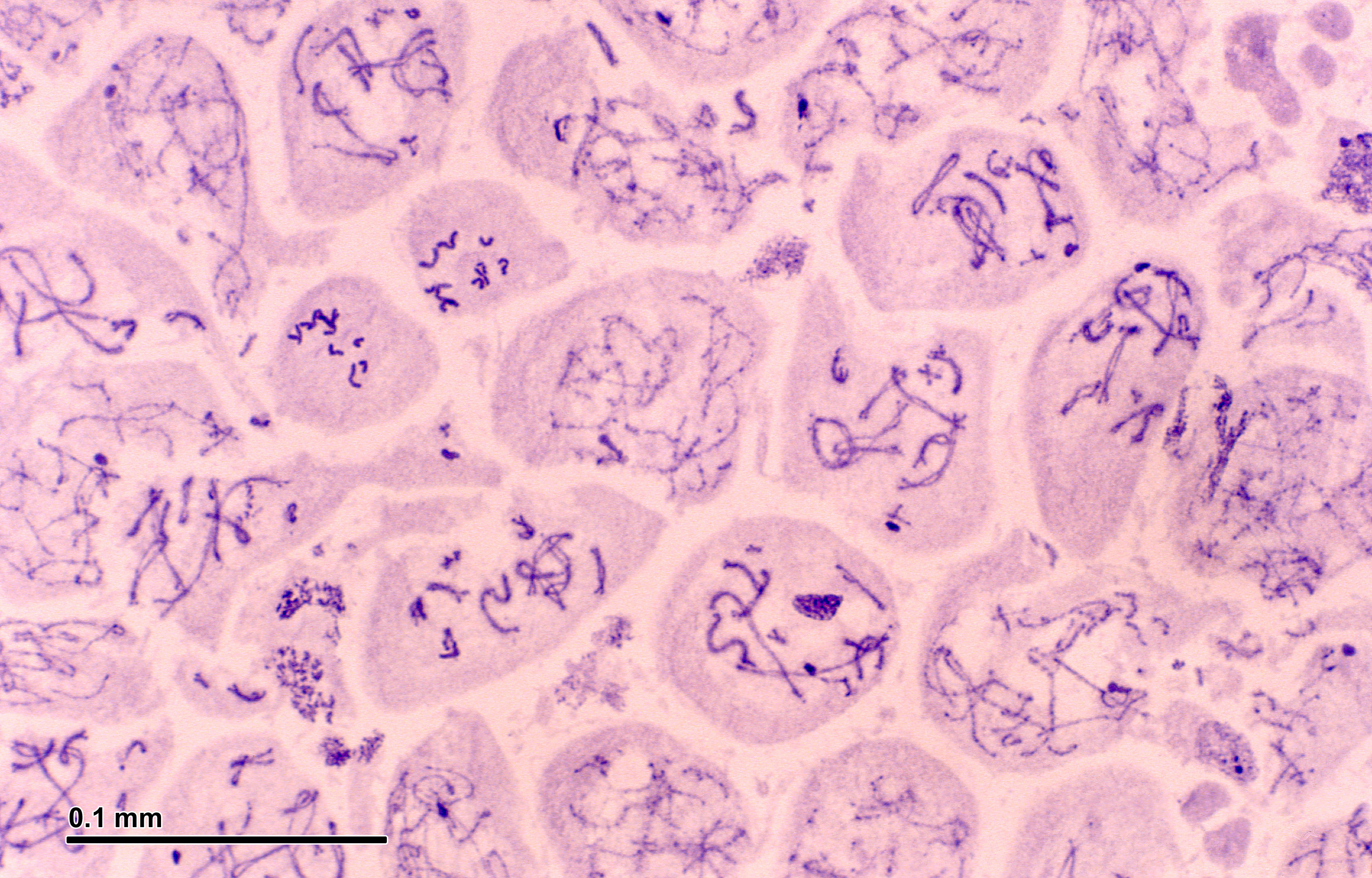 Meiosis: Grasshopper testes (gametes in zygotene, pachytene, prophase I). Optical microscopy technique: Bright field. Magnification: 600x (for picture width 26 cm ~ A4 format).